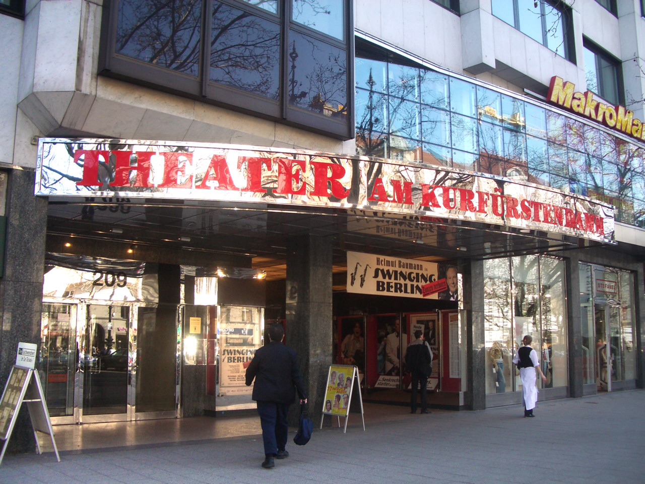 Berlin, Germany: Theater am Kurfürstendamm Berlin-Charlottenburg, Kurfürstendamm 208-209 Originally built 1904-1905. 1908 installation of a theatre hall. 1921-1923 installation of a theatre proper. 1925 rebuilding by Oskar Kaufmann. 1930-1931 major rebuilding by Oskar Kaufmann for the theatre director, Max Reinhardt. 1936 rebuilding by Carl Cramer. Damaged in World War II. After 1945, restoration and auditorium simplification by Helmut Remmelmann and Fritz Gaulke. Subsequently used by the "Freie Volksbühne" company. 1971 exterior rebuilding by Sigrid Kressmann-Zschach, incorporating the theatre hall in the new "Kurfürstendamm-Karree" complex. Used as a private theatre for light drama and comedy performances.